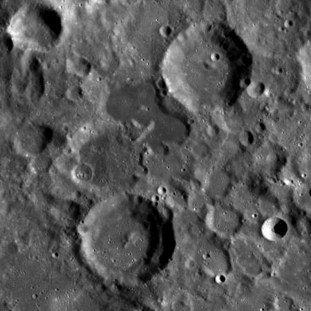 LROC image. Sniadecki at bottom center, Lacus Oblivionis at center, adjacent to Mohorovicic R (upper right)